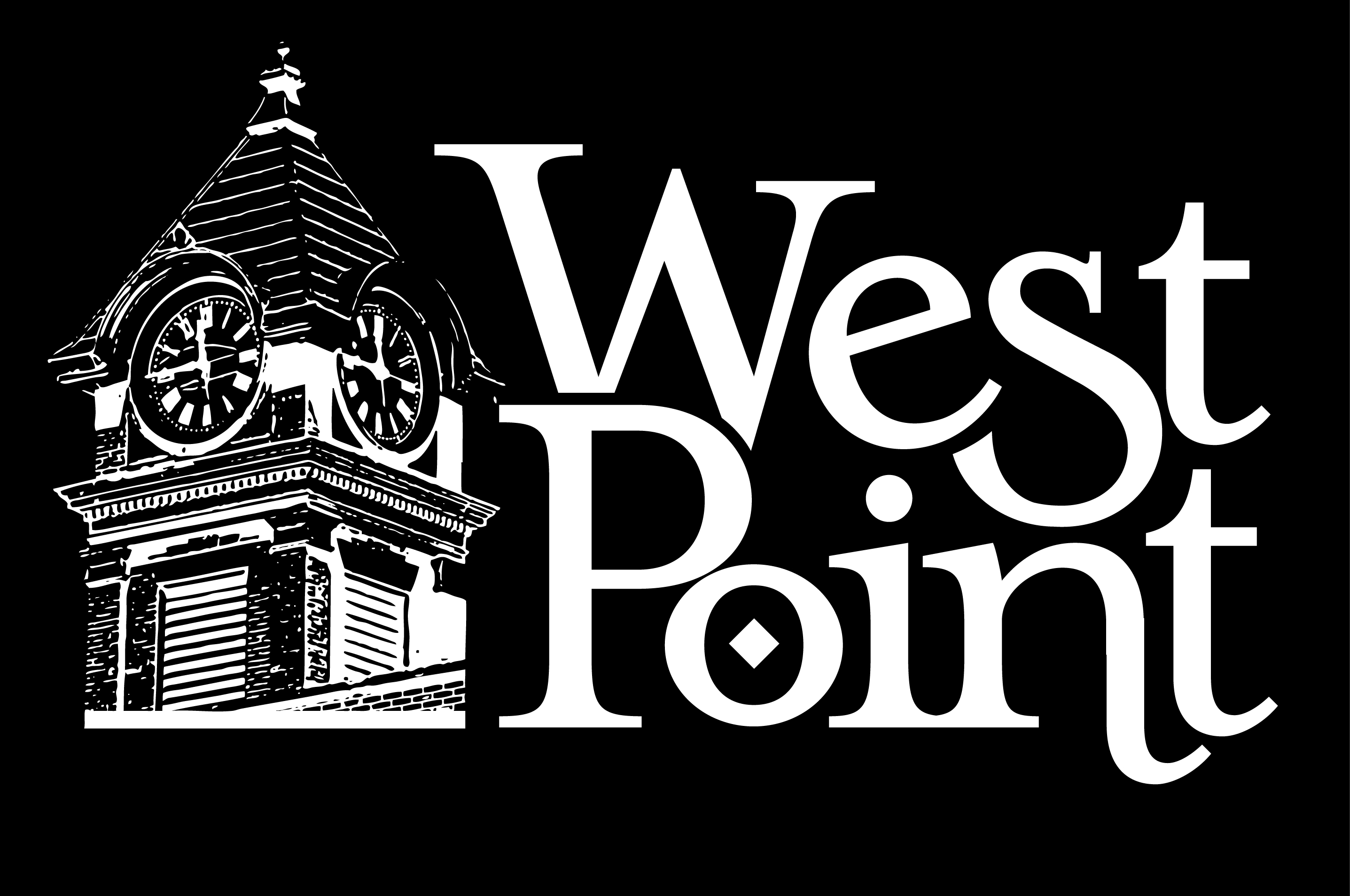 West Point Logo by Chamber of Commerce